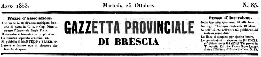 Nameplate of «Gazzetta provinciale di Brescia» of 25st October 1853. «Gazzetta provinciale di Brescia» was the name of «Giornale della Provincia bresciana» from 1841 to 1843 and from 1853 to 1859.